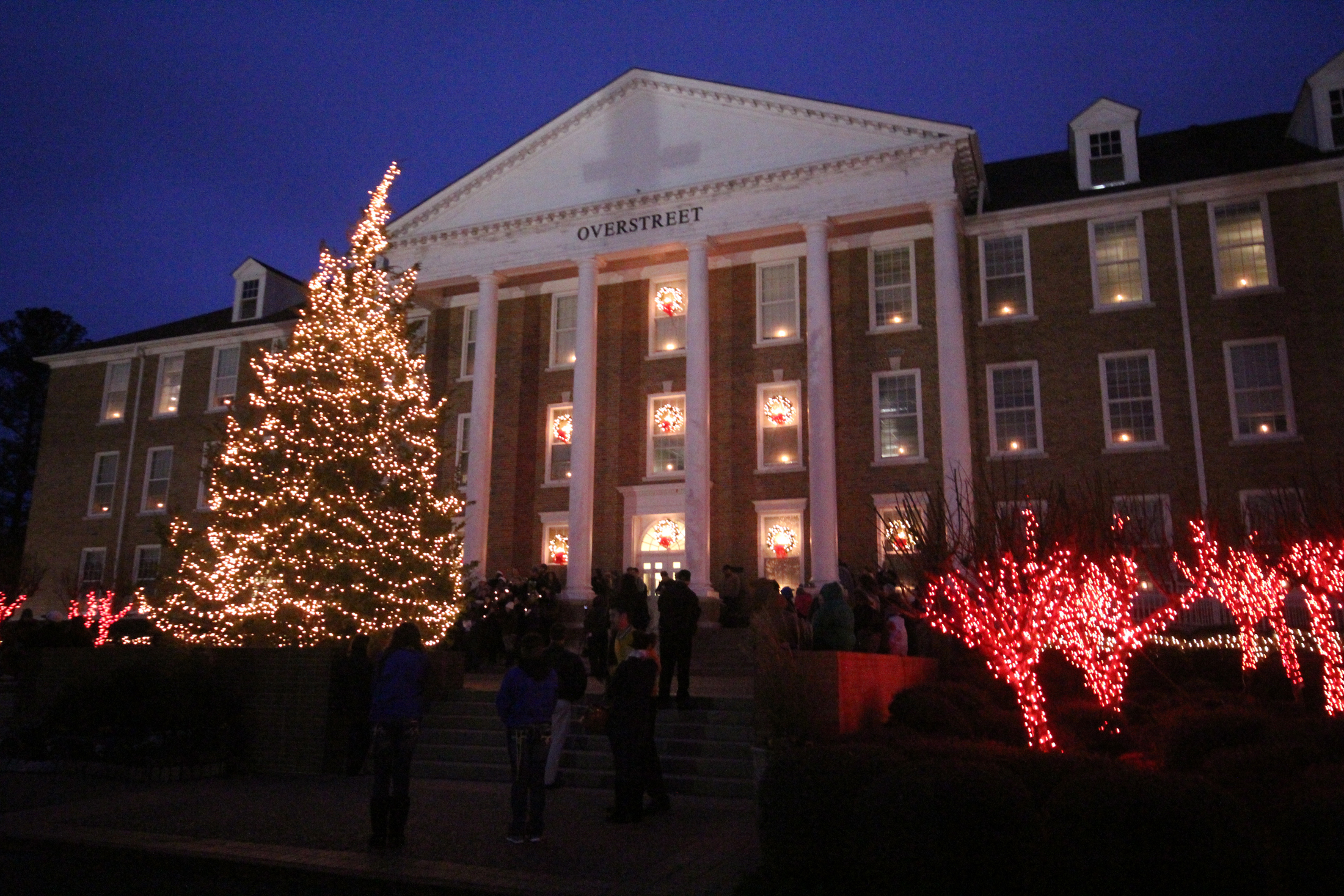 A photo of Southern Arkansas University's Overstreet Hall during the annual Celebration of Lights.